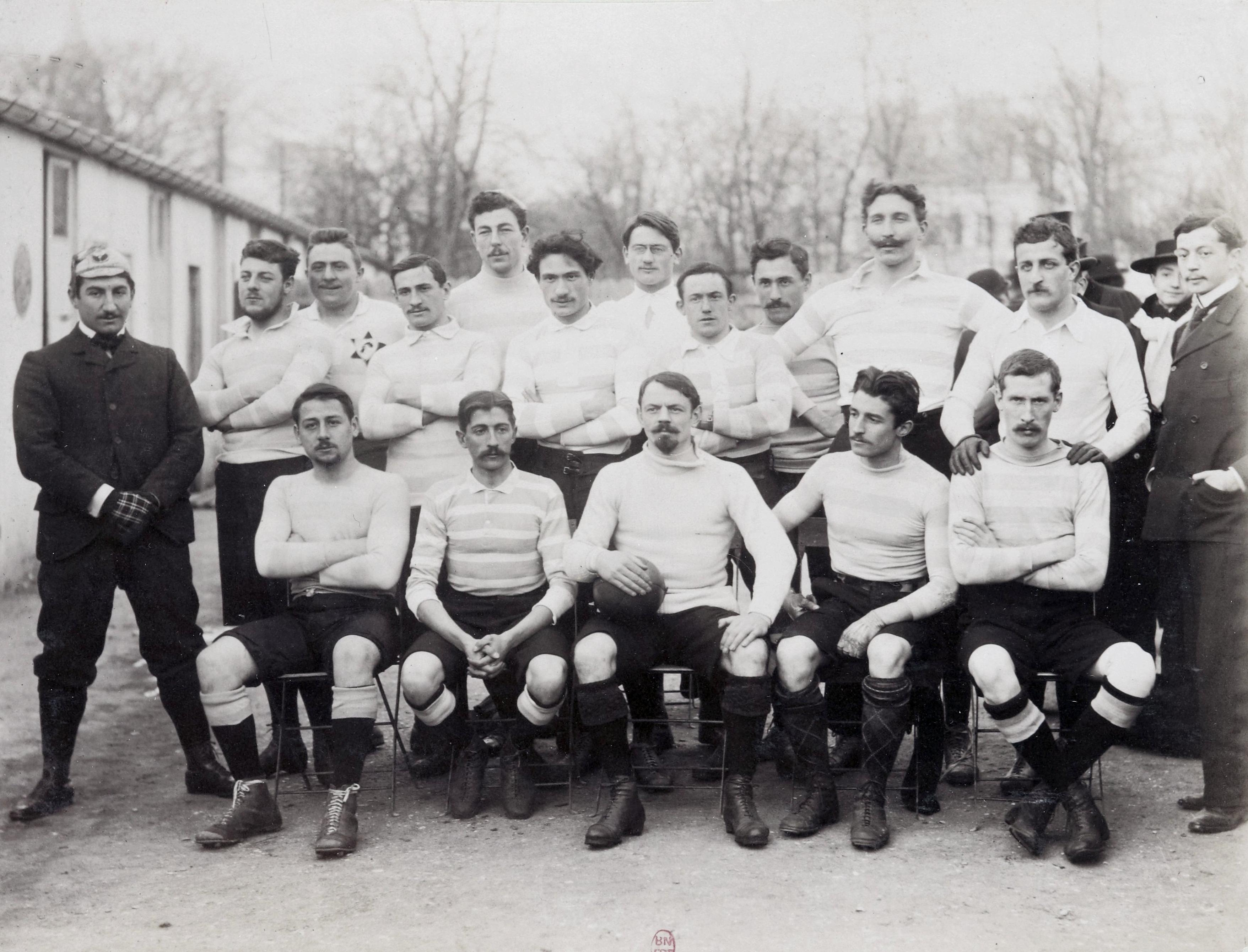 Le Racing Club de France en décembre 1899 à Paris (contre le London Irish FC) - Debout, de gauche à droite : JOBERT, ERTZBISHOFF, Paul MURET, Emile SARRADE, LEFÈVRE-HUBERT, GOUDARD, Vladimir AÏTOFF, Alexandre PHARAMOND, LEFÈVRE, Jean COLLAS, Robert BERNSTEIN, Charles GONDOUIN. Assis : Etienne LESAGE, CHASTANIÉ, Frantz REICHEL (cap), Henri TAUZIN, Cyril RUTHERFORD.